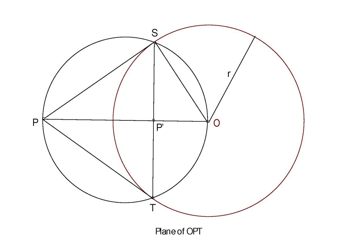 line drawing